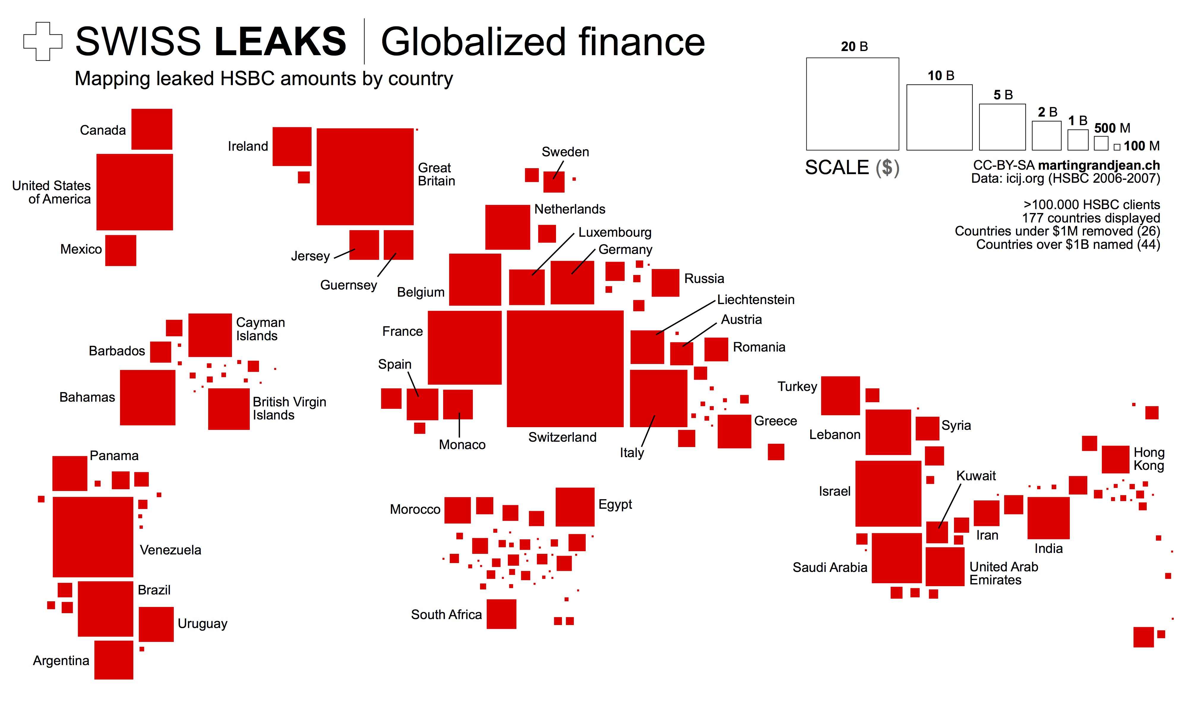 HSBC “Swiss Leaks” data shared by the International Consortium of Investigative Journalists reflect the globalization of tax evasion. While billions of dollars are inconceivable, mapping the origin of bank account holders allows an overview. Source: Grandjean, Martin (2015) Data Visualization: #SwissLeaks, the map of the globalized tax evasion